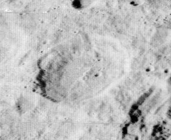 Oblique view of Spencer Jones W crater, located northwest of Spencer Jones crater, on the far side of the moon. North at top.